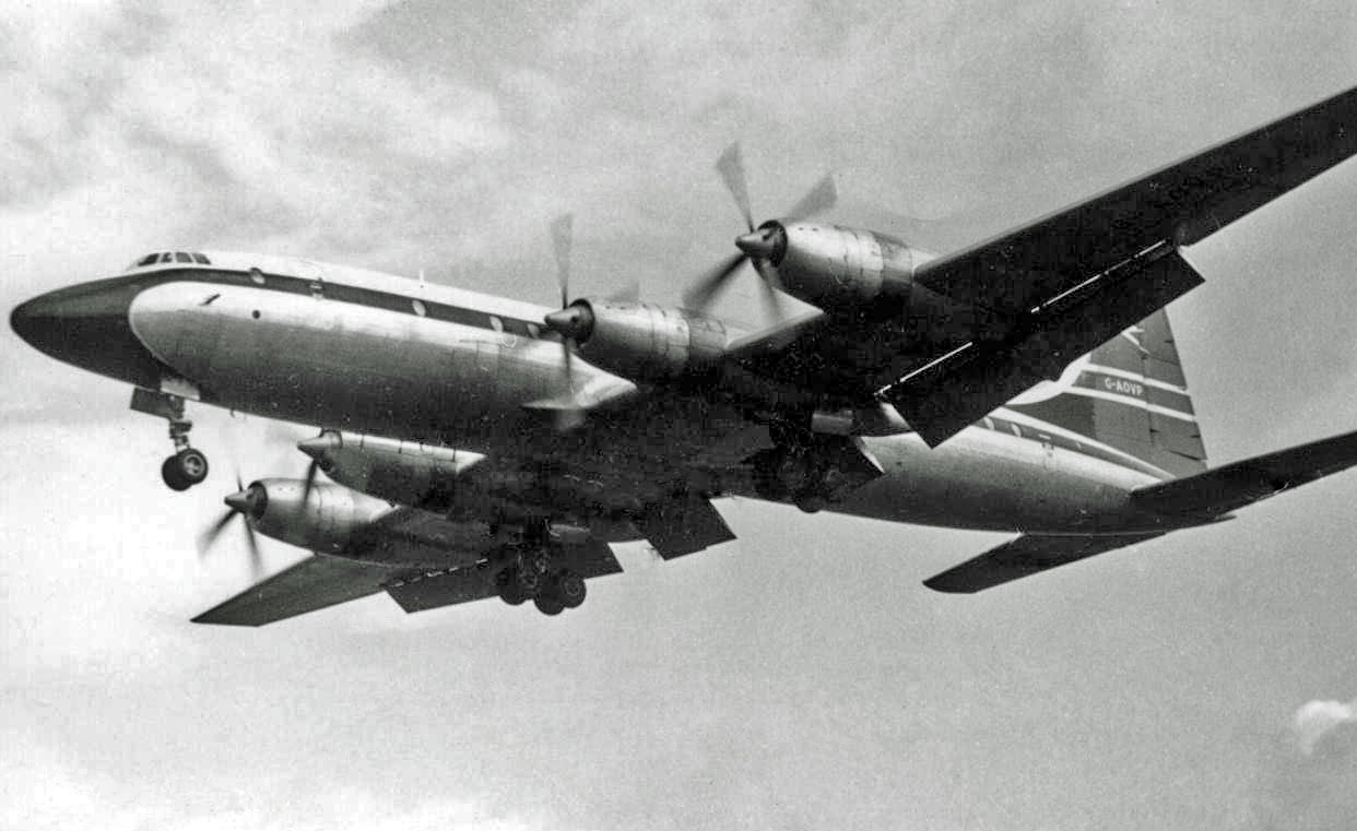 BOAC Bristol Britannia 312 G-AOVP landing at Manchester (Ringway) Airport